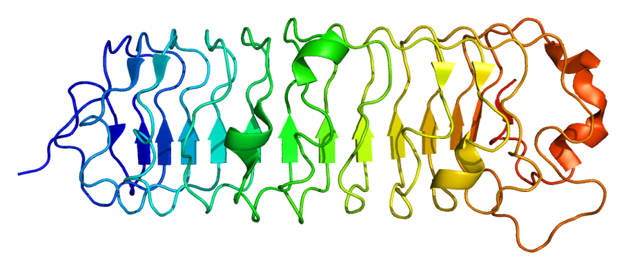 Structure of the DCN protein. Based on PyMOL rendering of PDB 1xcd.